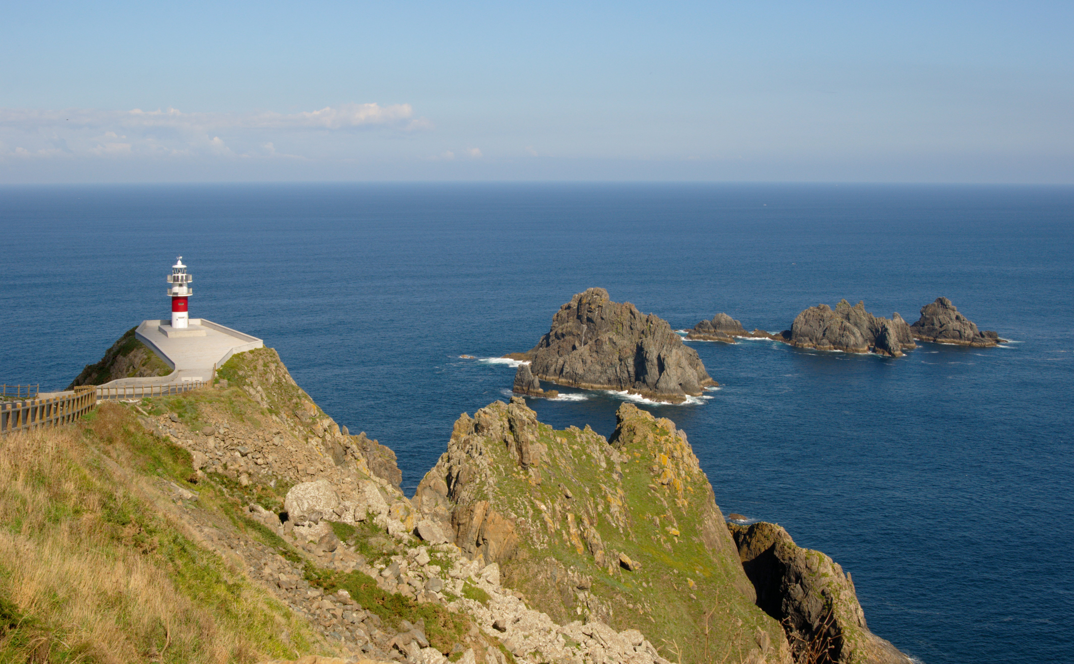 Cape Ortegal